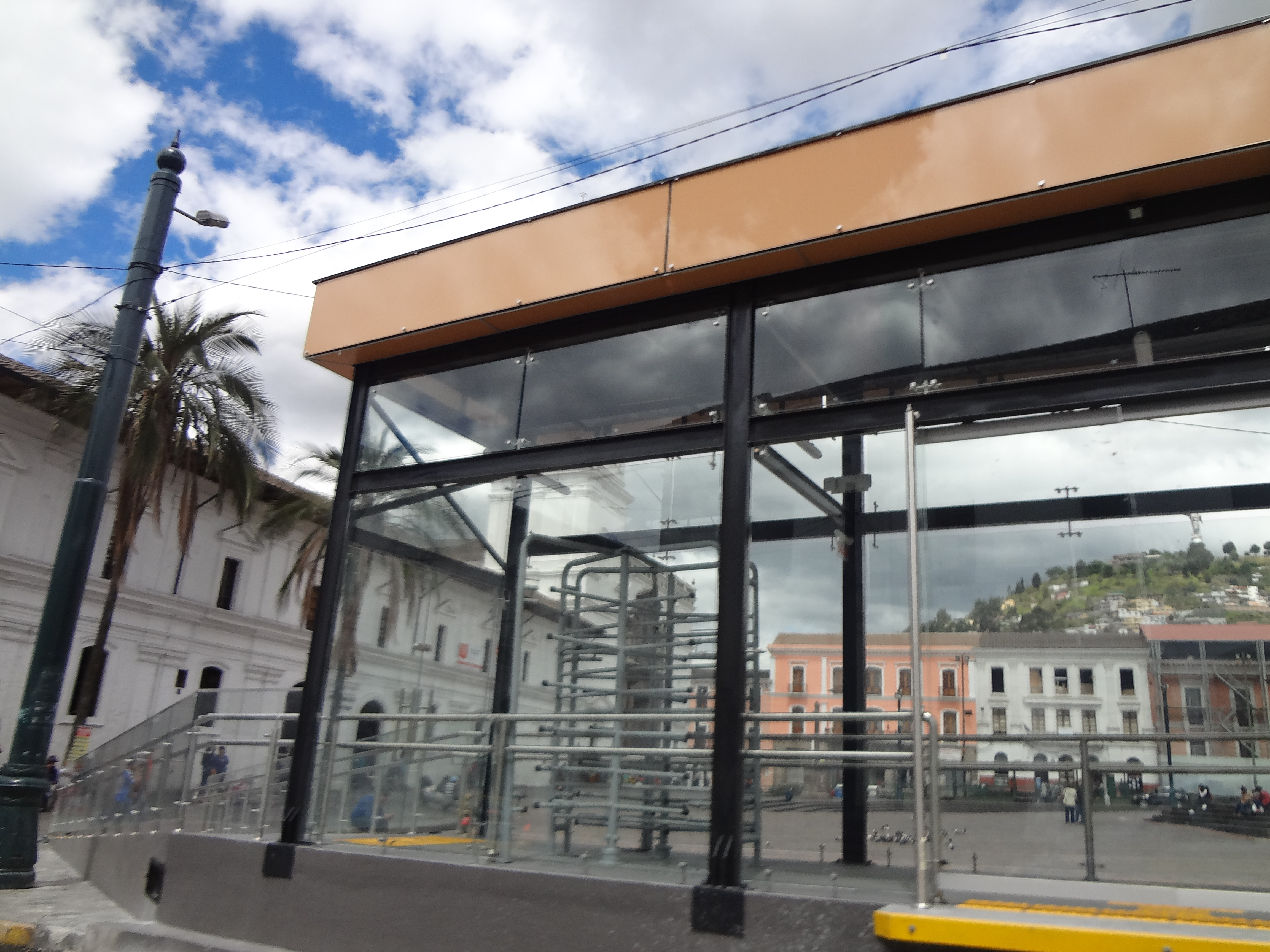 Plaza de Santo Domingo, Quito Historic Center of Quito UNESCO World Cultural Heritage Site Centro Histórico de Quito Photography by David Adam Kess